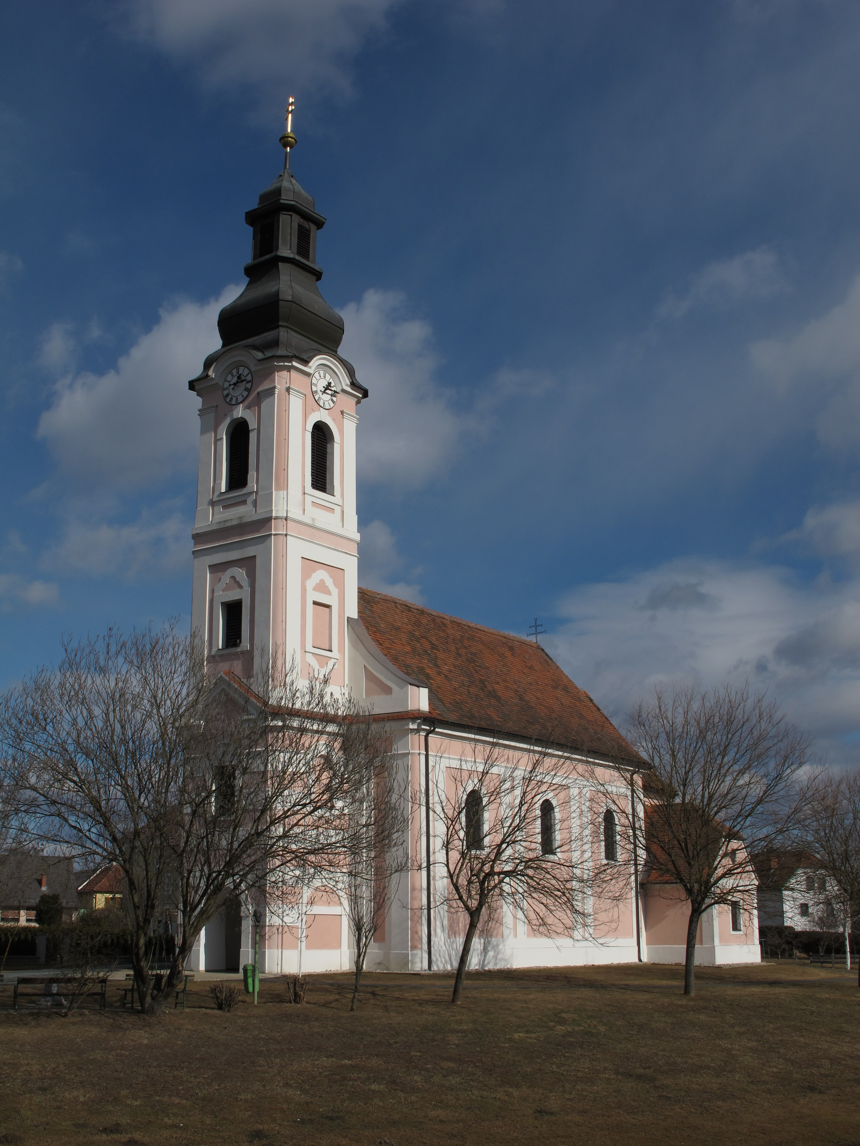 Pfarrkirche Bocksdorf